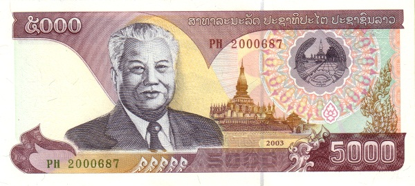 5000 Laotian kip in 2003 Obverse